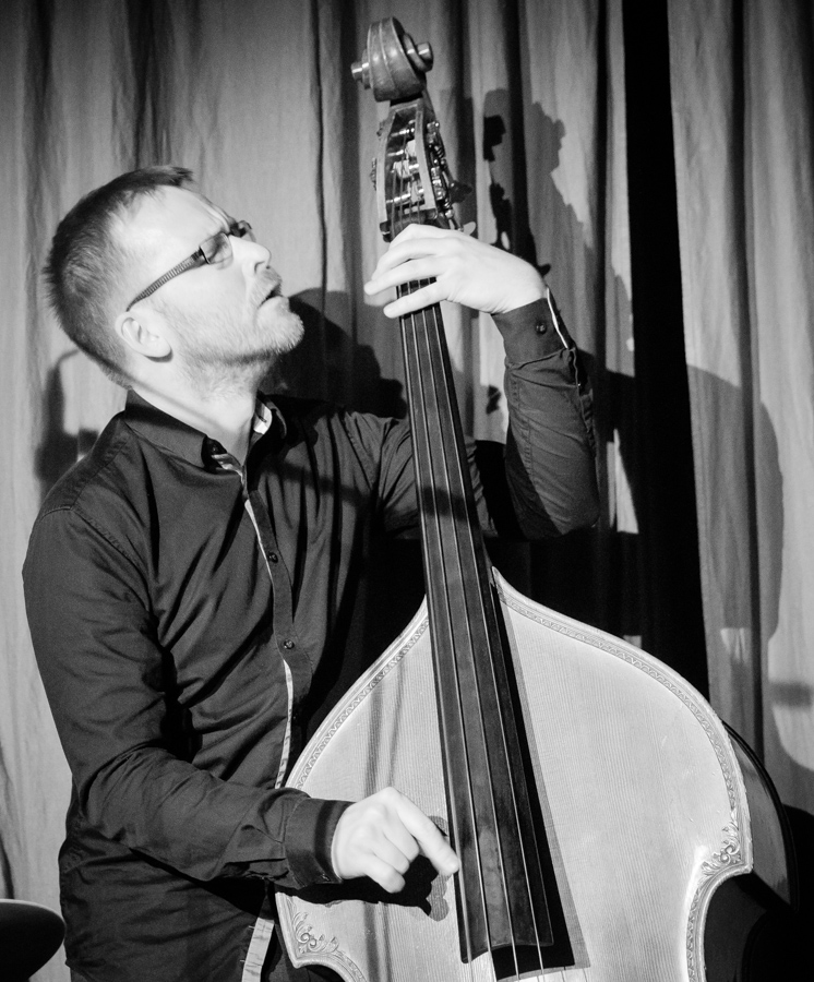 Ole Marius Sandberg with Vargtime and Gunnar Staalesen at the stage at Løa Jølstraholmen. The concert was part of Jazz på Jølst and took place on 12. October 2017. Lineup: Gunnar Staalesen (spoken words), Jan Kåre Hystad (saxophone), Dag Arnesen (piano), Ole Marius Sandberg (bass guitar) and Frank Jakobsen (drums).